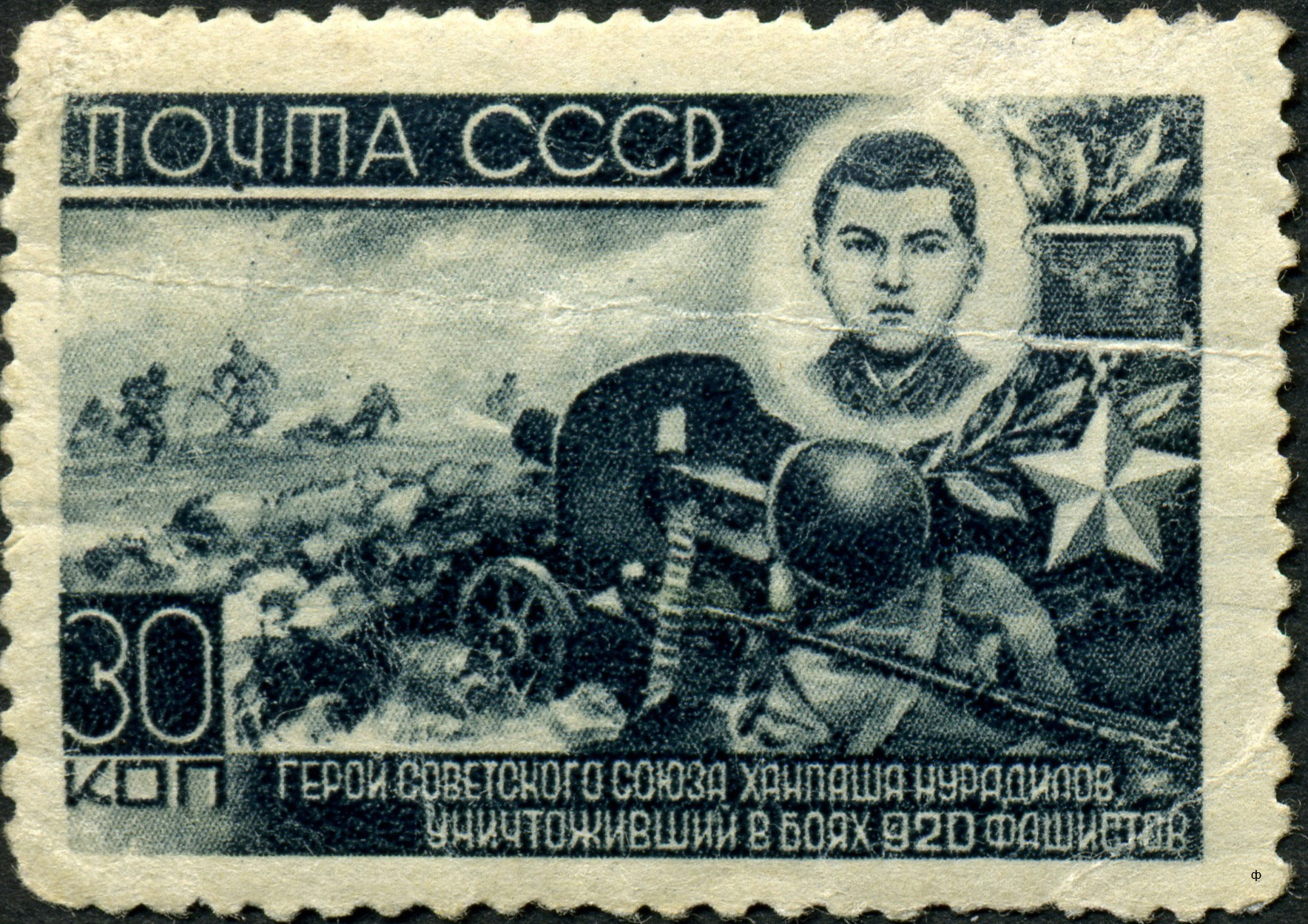 Stamp of USSR, Khanpasha Nuradilov, 1944